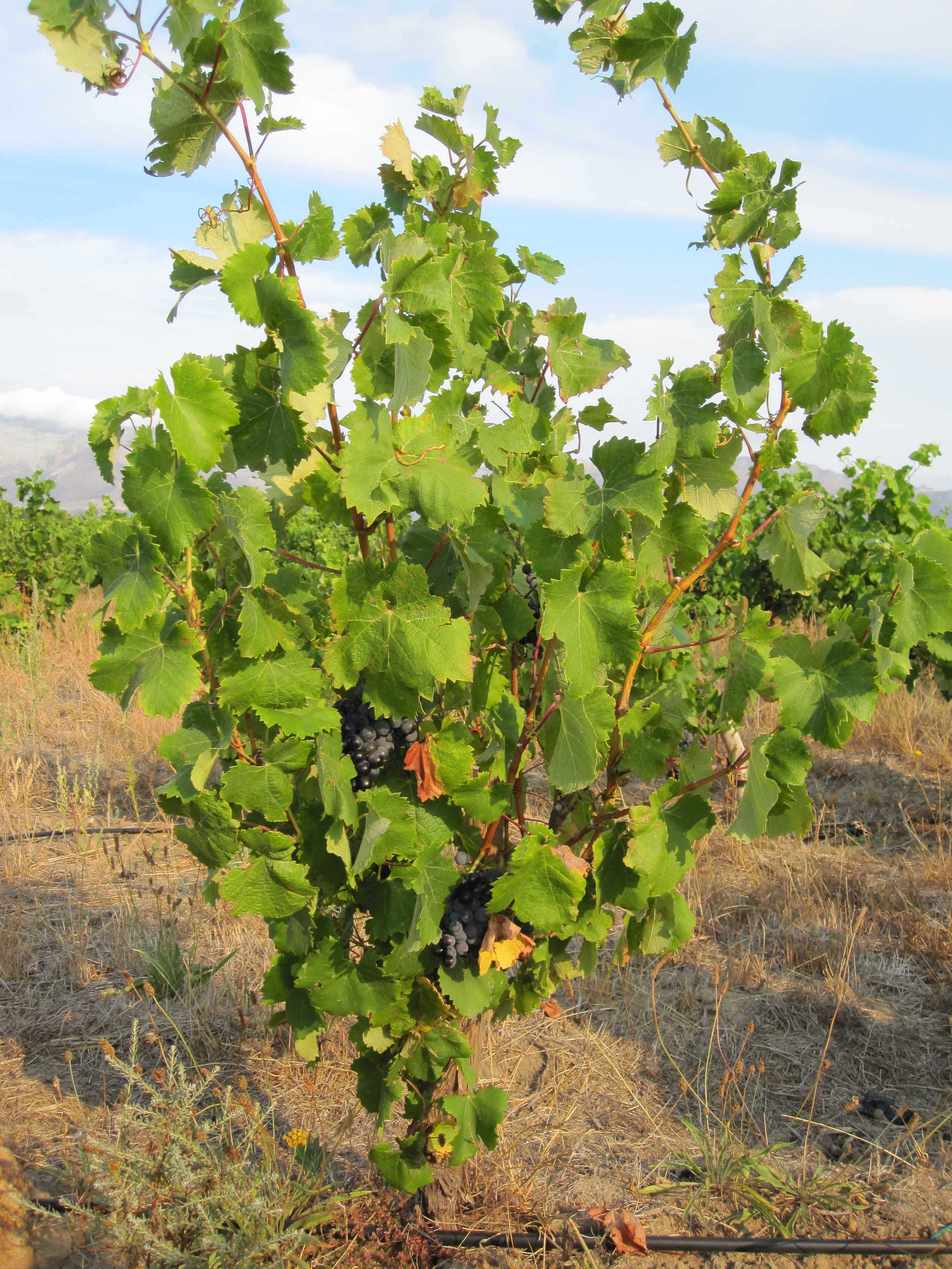 Mourvèdre plant in Waterkloof vineyards, Stellenbosch, South-Africa